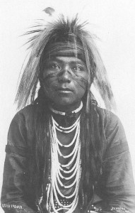 "Utah Indian" by Charles Ellis Johnson